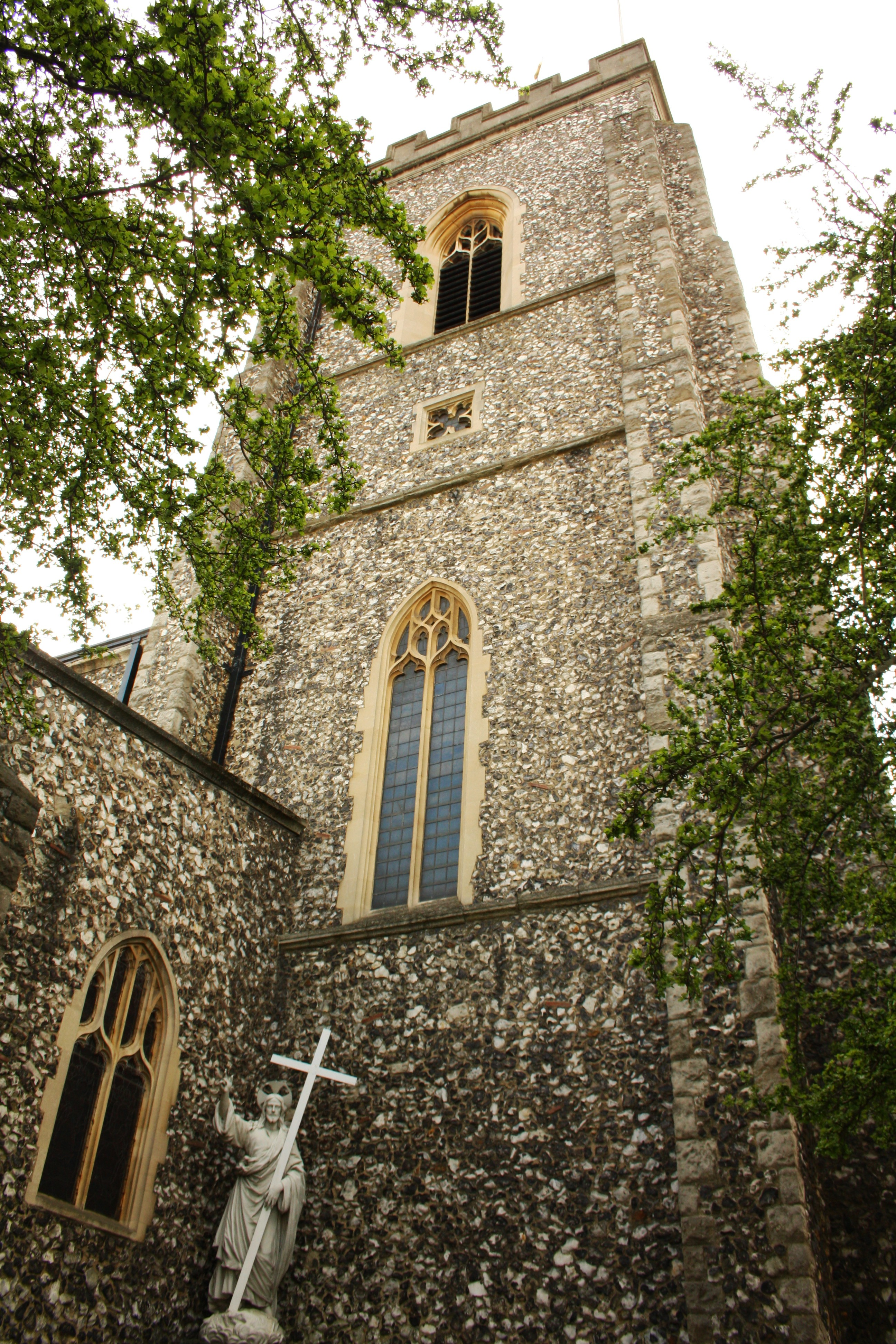 Church in Slough